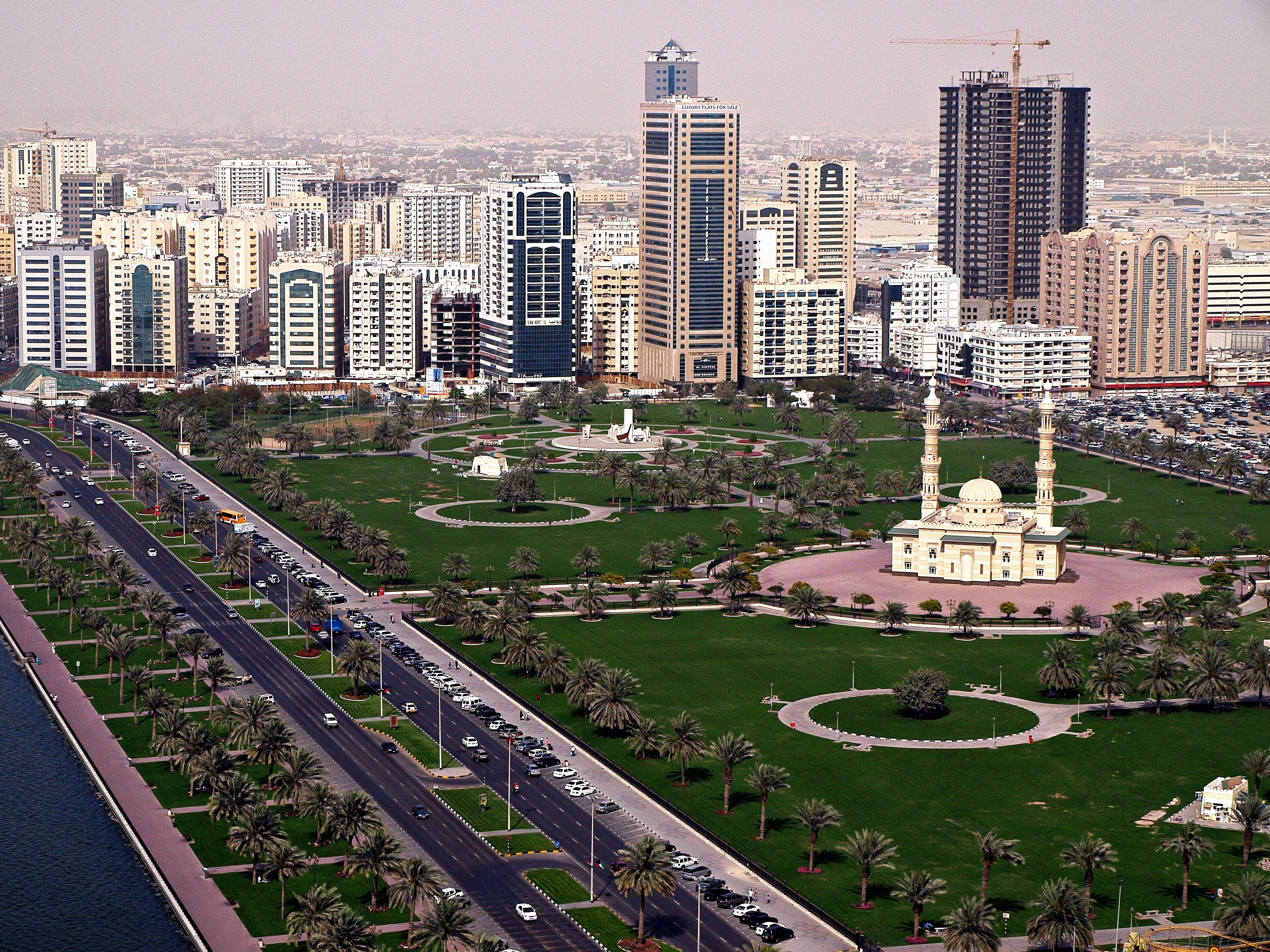 Sharjah, UAE